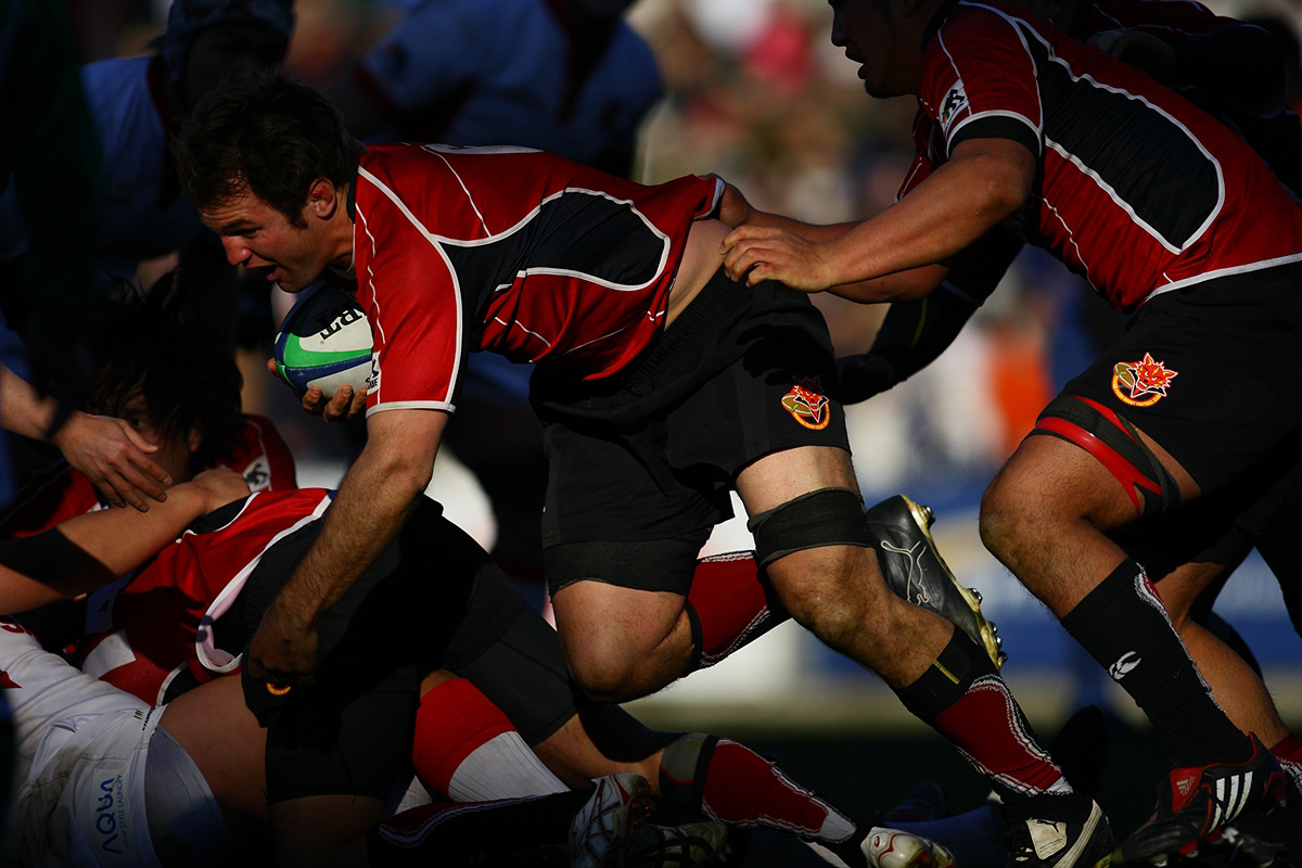 FEBRUARY 8, 2009 - Rugby : Japan Rugby Top League 2008-2009 Play off Tournament Microsoft Cup Final between TOSHIBA Brave Lupus and SANYO Electric Wild Knights at Chichibunomiya Rugby Stadium on February in Tokyo, Japan. (Photo by Tsutomu Takasu)